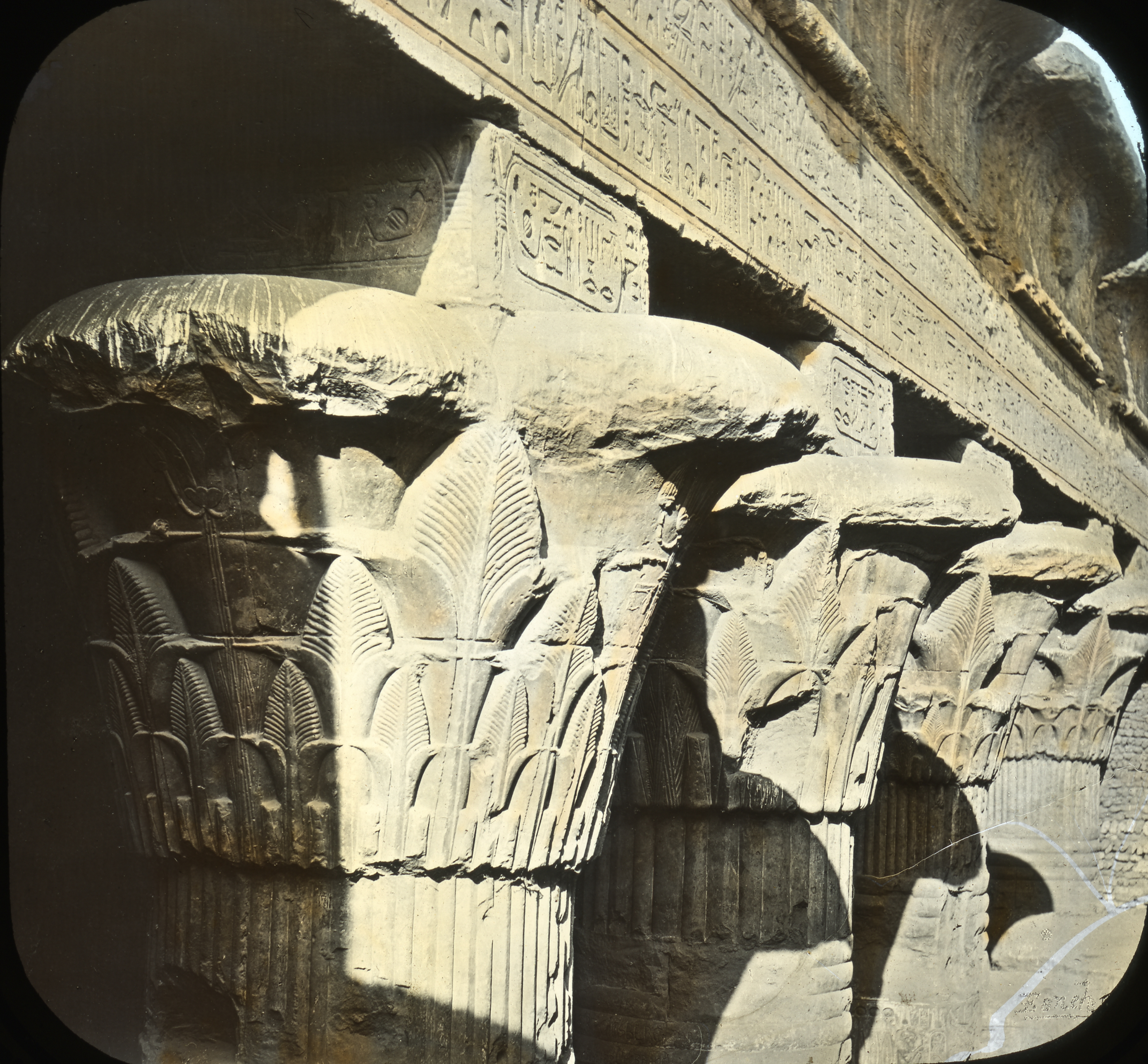 Lantern Slide Collection: Views, Objects: Egypt. Esneh [selected images]. View 01: Egypt - Columns in Temple of Esneh., n.d., T. H. McAllister, Manufacturing Optician. 49 Nassau Street, New York. Brooklyn Museum Archives (S10|08 Esneh, image 9882).